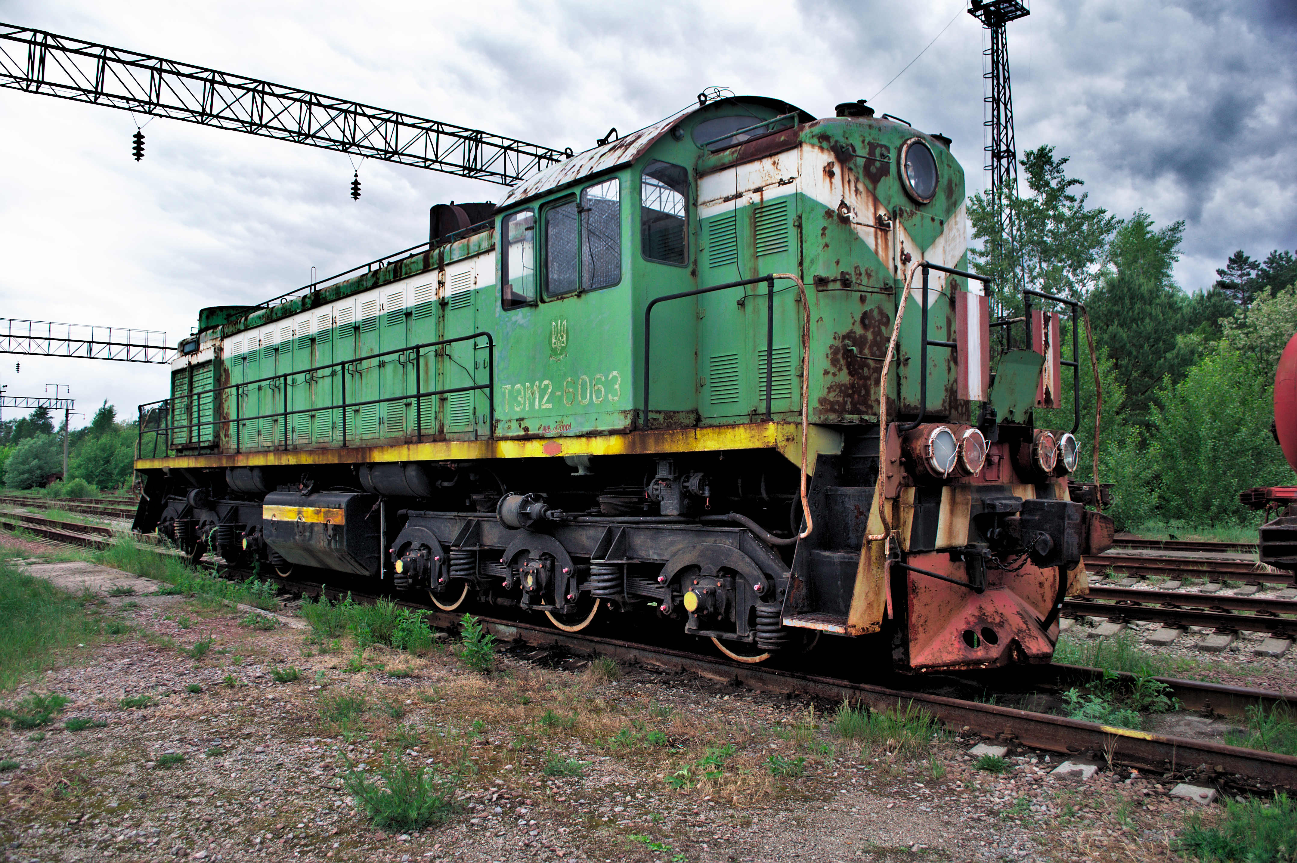 Locomotive TEM2-6063 on Yaniv station near Pripyat